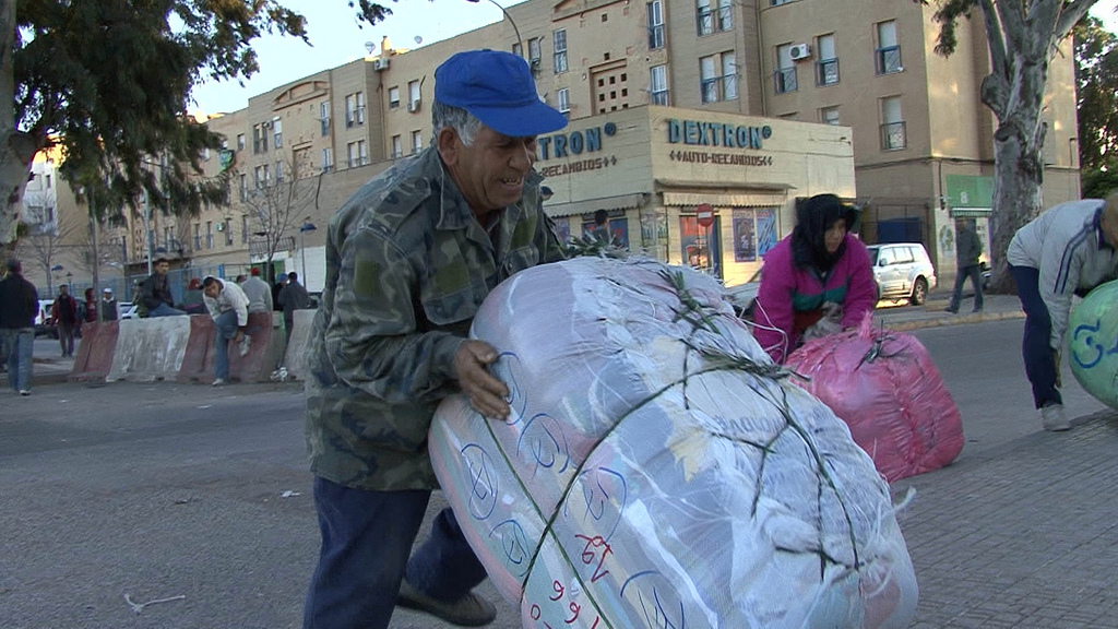 CIEN METROS MÁS ALLÁ •Documental 2008 •Dir. Juan Luis de No •Exec. Prod. Stéphane M. Grueso •elegant mob films / Odisea / TVE •1 x 66' / 56' / color / stereo •HD - HDCAM Alrededores de Melilla, una pequeña porción de Europa dentro del continente africano, frontera terrestre entre Europa y África. Miles de personas sobreviven del contrabando y esperan una oportunidad para mejorar su existencia. Mientras tanto la economía global avanza inexorablemente sin tener en cuenta sus pequeñas vidas. Más info: ENGLISH --------------------------------------------------- ONE HUNDRED METERS AWAY •Documentary 2008 •Dir. Juan Luis de No •Exec. Prod. Stéphane M. Grueso •elegant mob films / Odisea / TVE •1 x 66' / 56' / color / stereo •HD - HDCAM The untold story of one of the world's hot spots where thousands of workers beast of burden in a struggle to survive. One hundred meters away takes place in Melilla, the terrestrial border between Africa and Europe; a portion of Europe wedged in the African continent, where mobs gather to fight for the scraps of a booming business: smuggling, while waiting for a chance to better their lives. Meanwhile, the Global economy moves on inextricably oblivious of its influence over simple human beings.